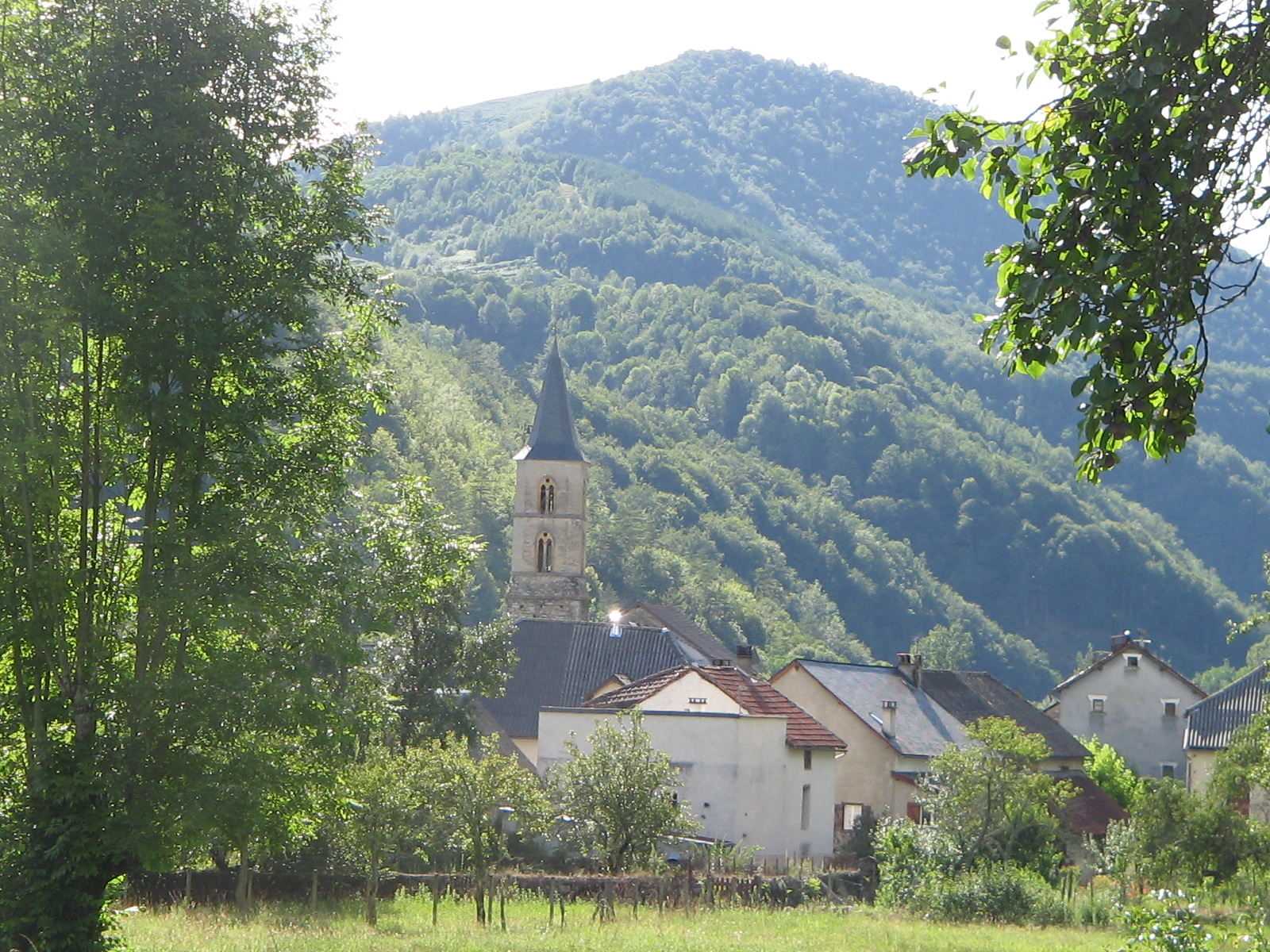 Biert, Ariège, Midi-Pyrénées, France. Village view, due south from the D18B road to la Crouzette (42.899209, 1.31484). 590 m altitude.